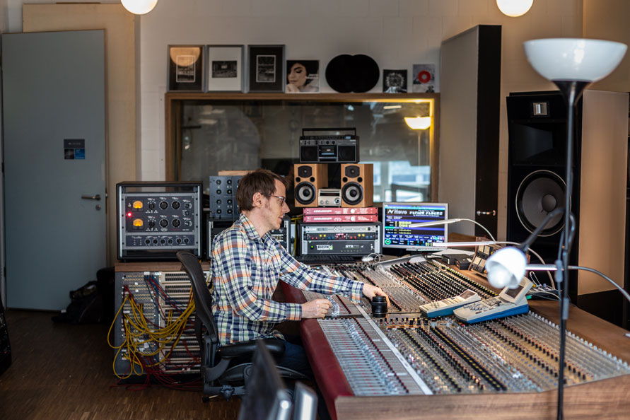 Daniel Dettwiler in seinem studio